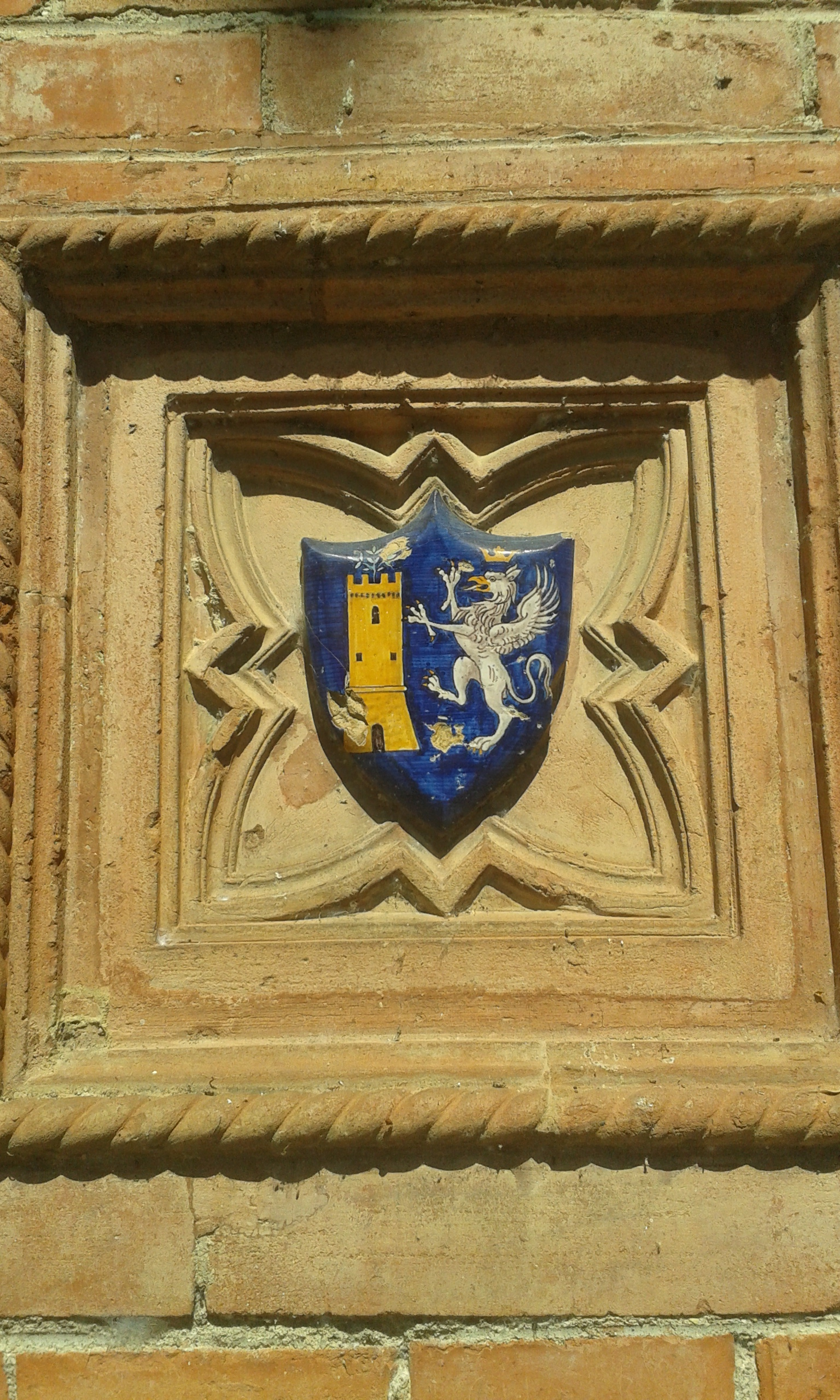 stemma di Deruta, manifattura Grazia